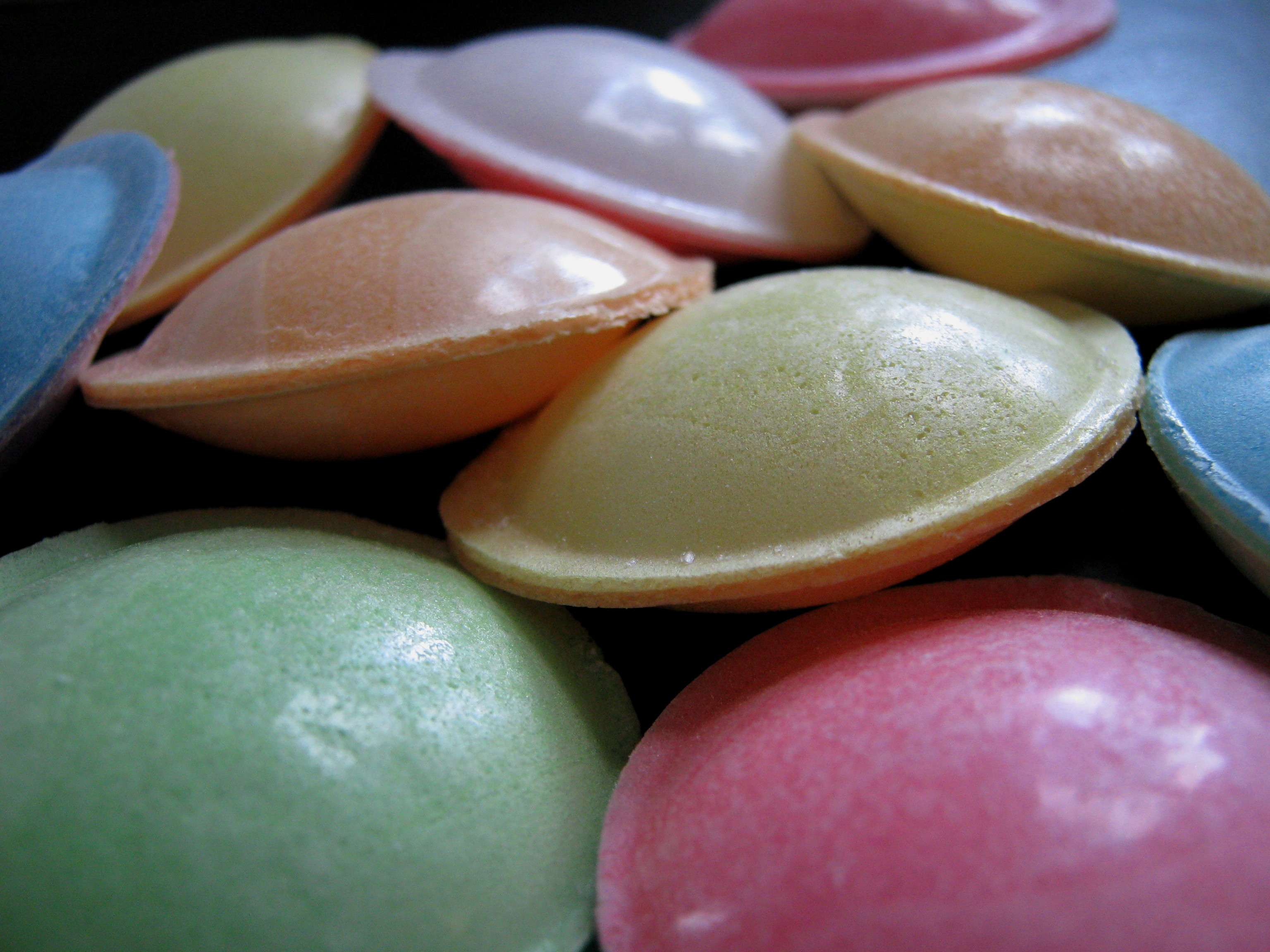 Flying saucer (confectionery)